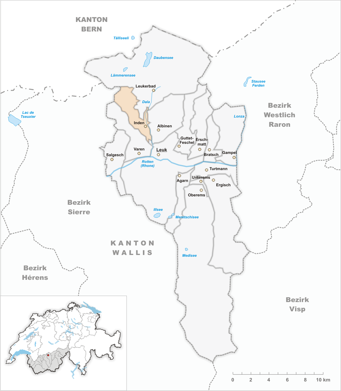 Municipality Inden